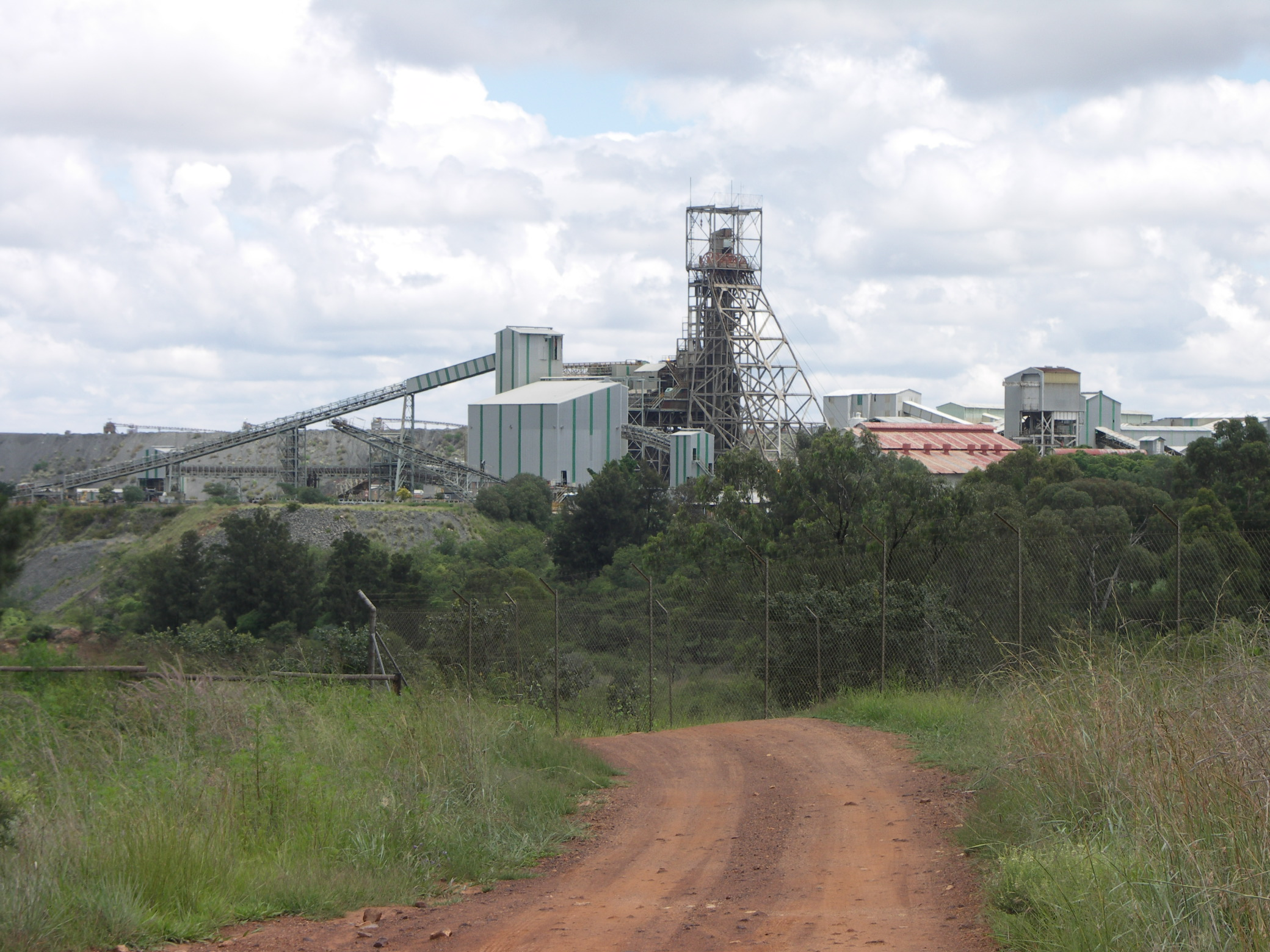 Headframe of the Cullinan Diamond Mine (formerly known as the Premier Mine), Cullinan, South Africa.